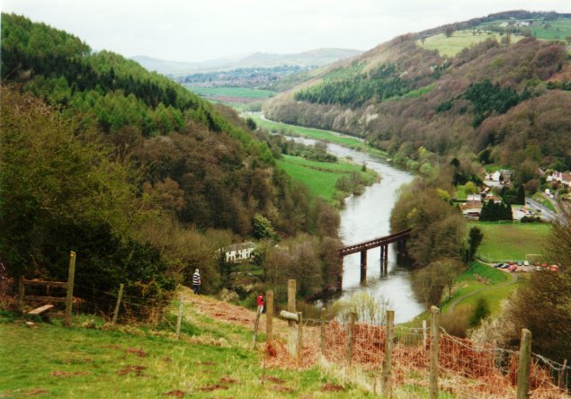 Steep descent to Redbrook The way is clear, over the stile, and it is all downhill, steeply. Oh, the knees. The former railway bridge crossing the River Wye is the main feature of the village.